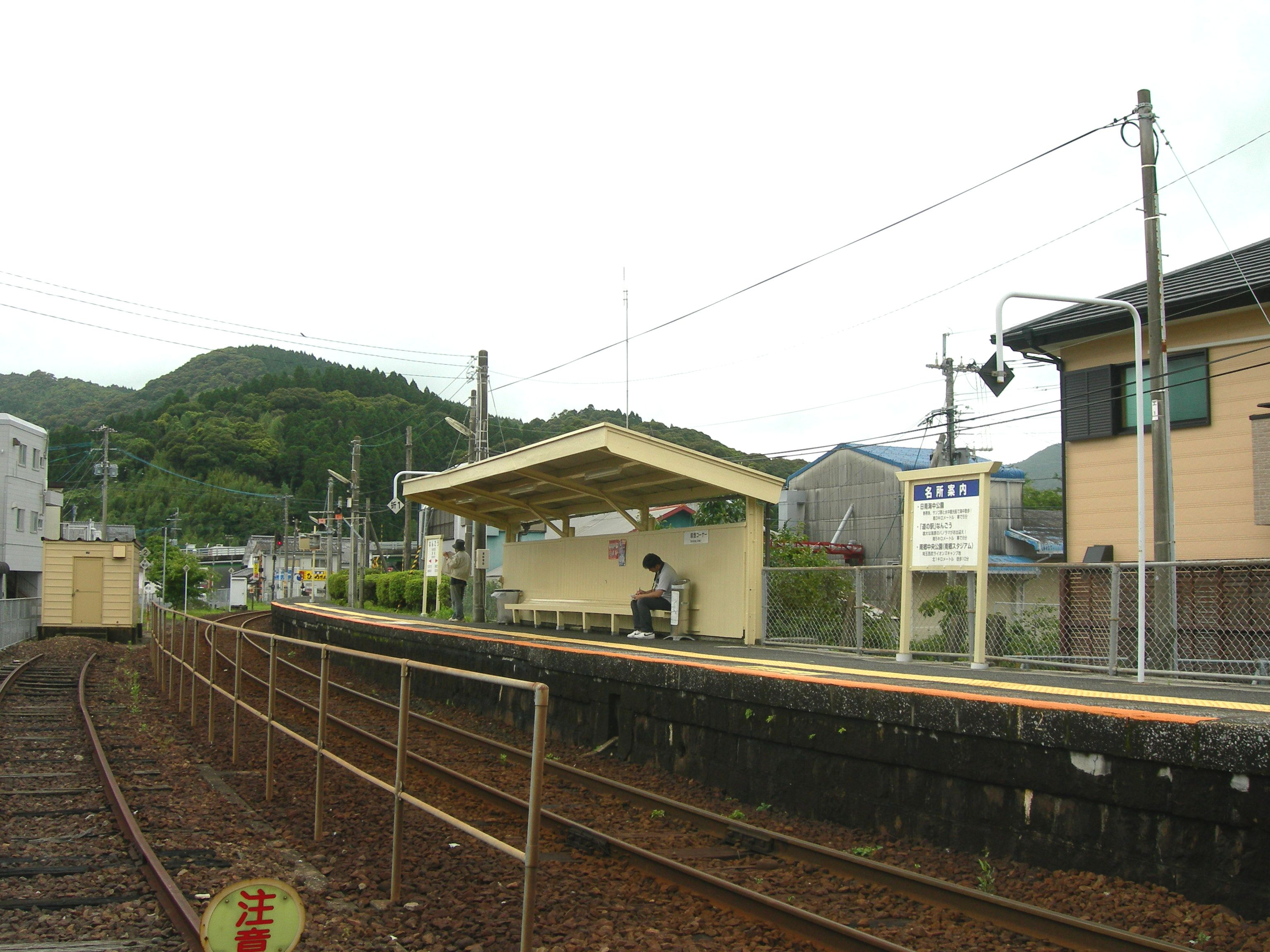 Nango Station platform